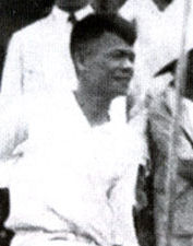 Source : A Biography of John Sung (ISBN : 9814138193) Old photograph from private collection captioned "Dr John Sung after his first Singapore visit in 1935, about to sail for Shanghai."